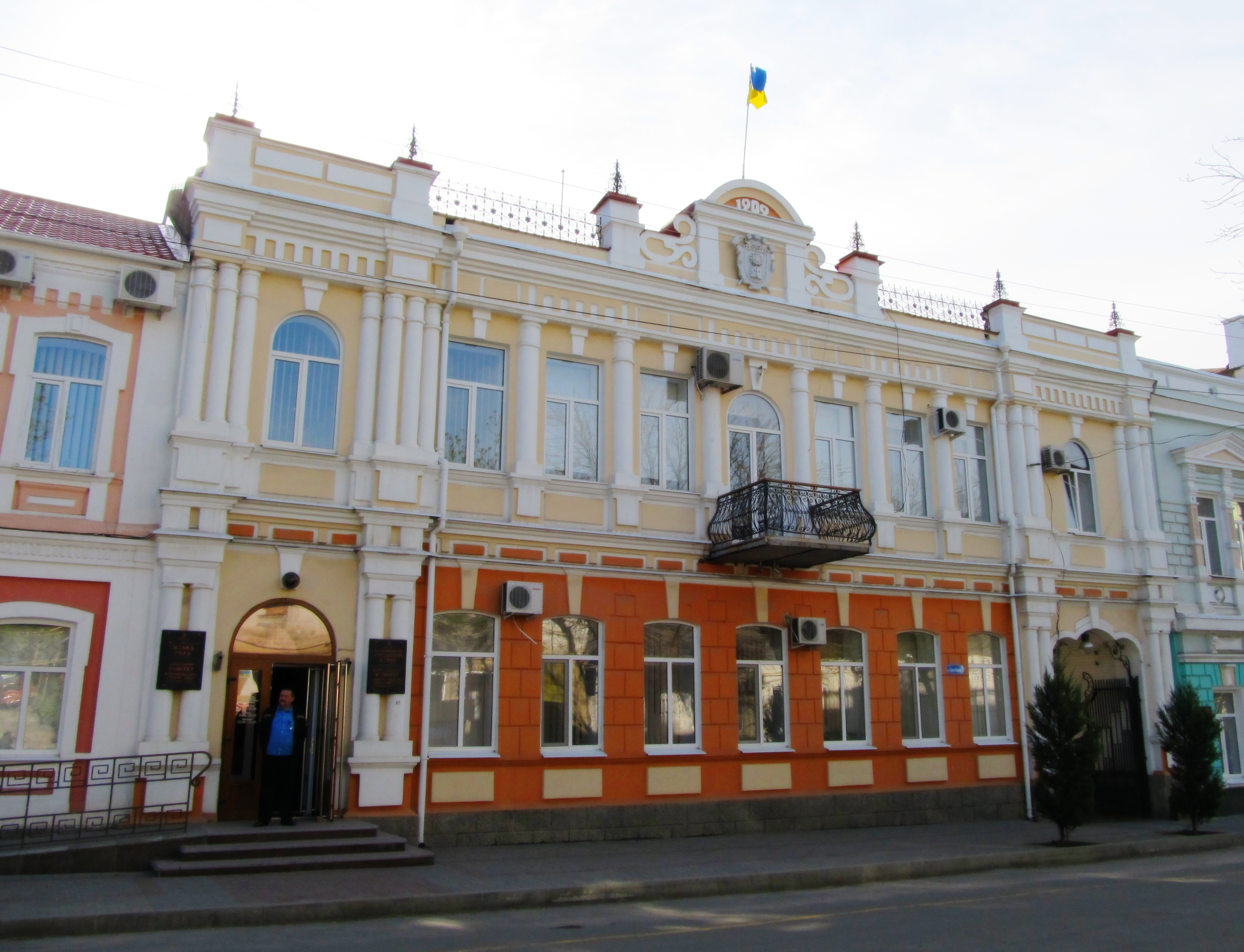 Melitopol City Hall (5 Karl Marx Street, Melitopol, Zaporizhia Oblast, Ukraine).